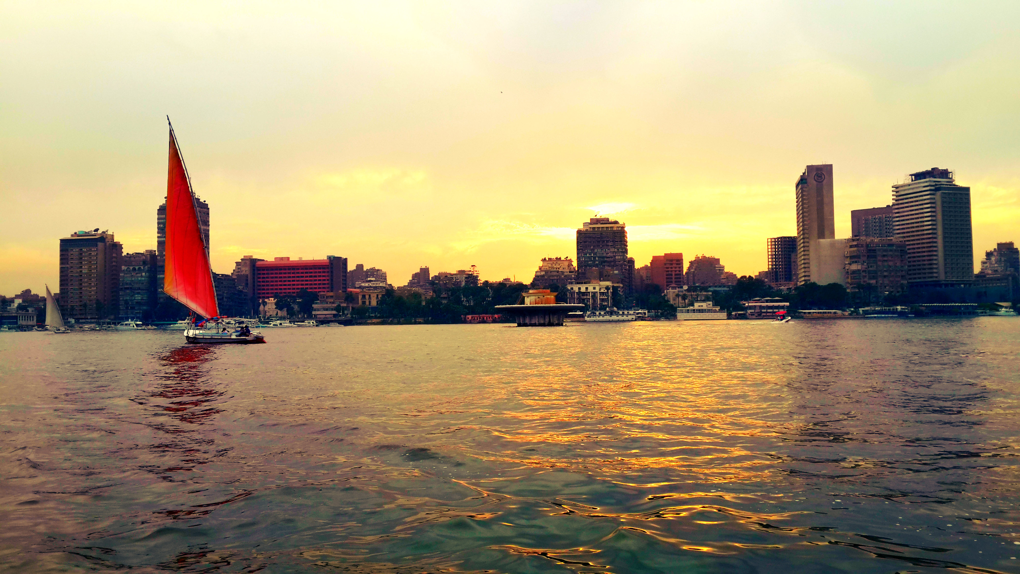 river nile in cairo